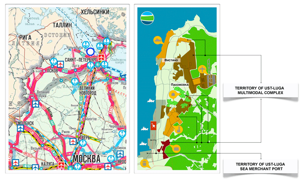 Ust-Luga Multimodal Complex is located in the North-Western Federal District of the Russian Federation in Kinseppsky district of Leningrad region on the border of the Russian Federation and the European Union in close vicinity of Ust-Luga Sea Merchant Port.